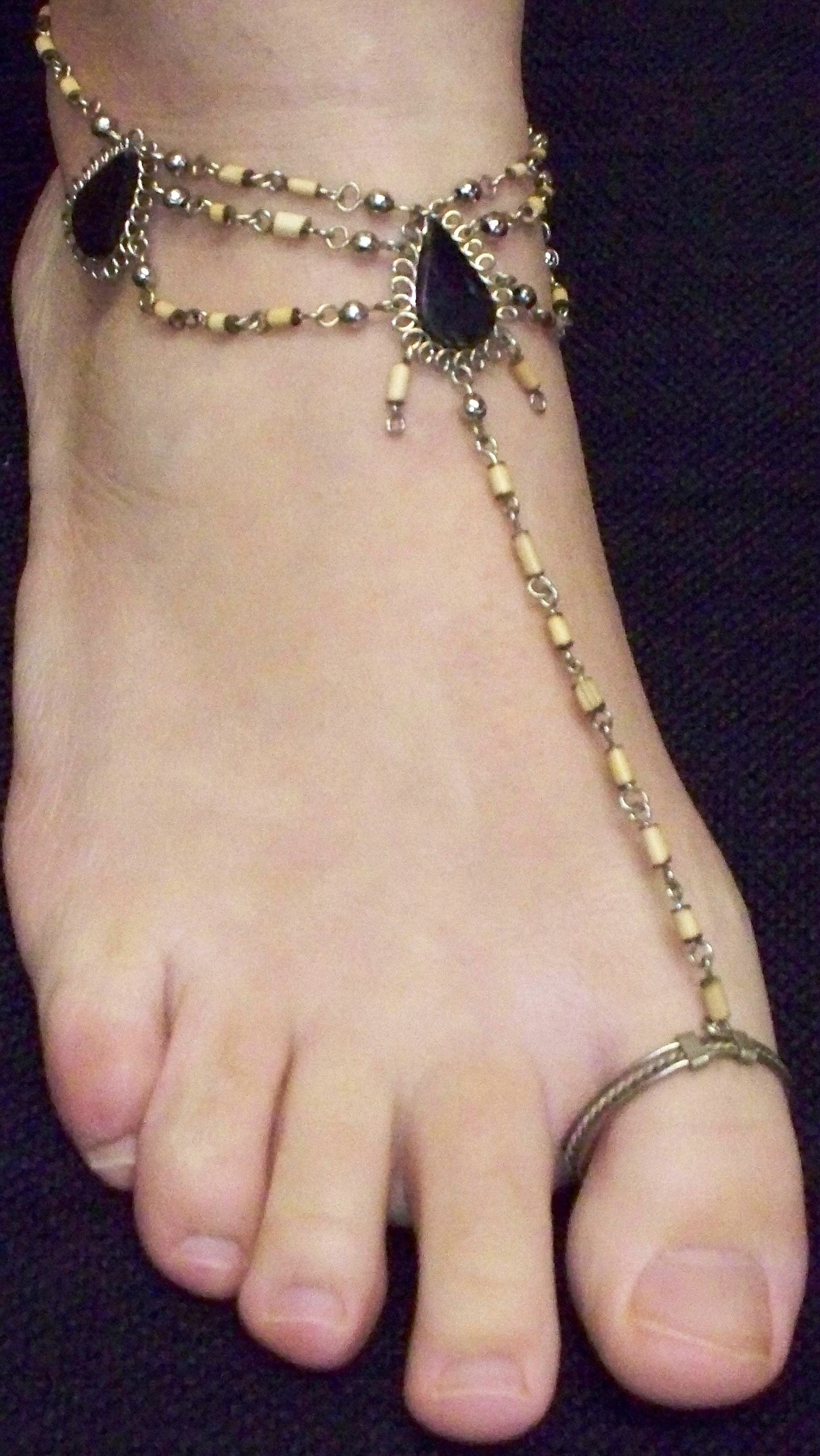 Picture of toe ring. I am the original author and am releasing the imagine into the public domain.